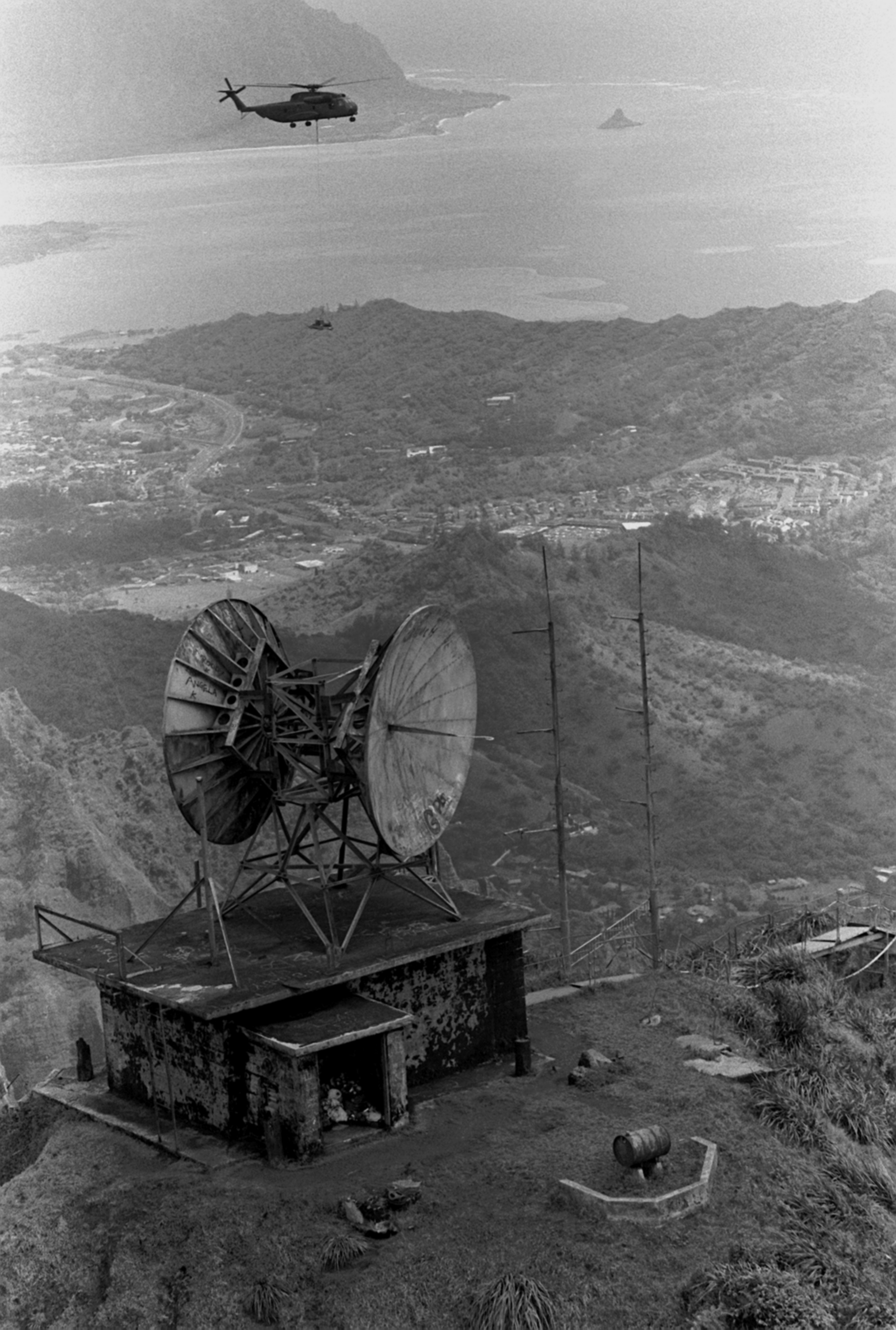 A U.S. Marine Corps Sikorsky CH-53D Sea Stallion helicopter from Marine Heavy Helicopter Squadron 463 (HMH-463) transports a winch to the Coast Guard Kaneohe Omega Transmitter, Haiku Valley, Oahu, Hawaii (USA), in 1987. [The building in the picture is not the Omega transmitter building, however. It is the Communications Control Link building of the Naval Radio Station at Haiku, decommissioned in 1957. Search "Haiku Naval Radio Station" on Google. JMF]